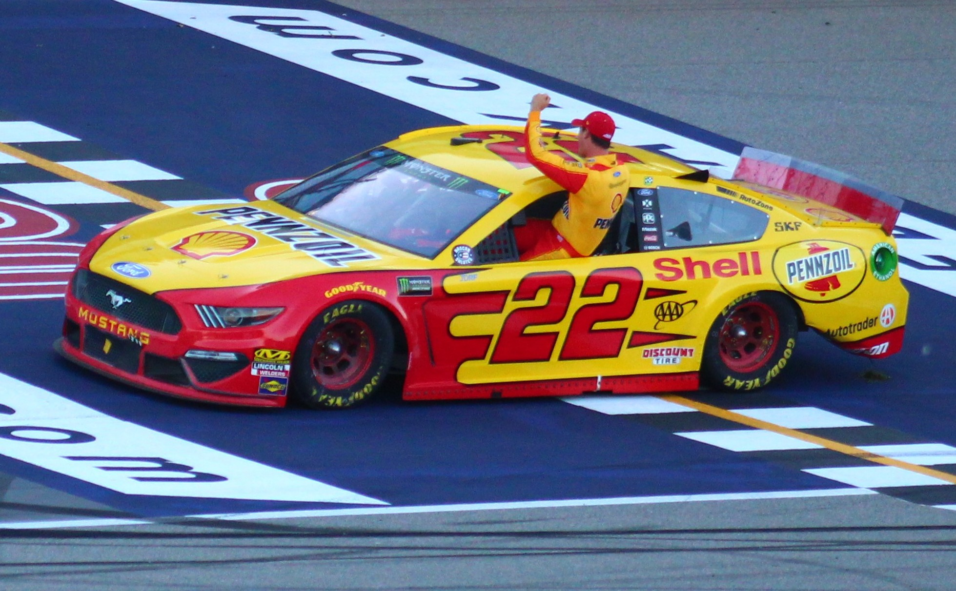 2019 FireKeepers Casino 400